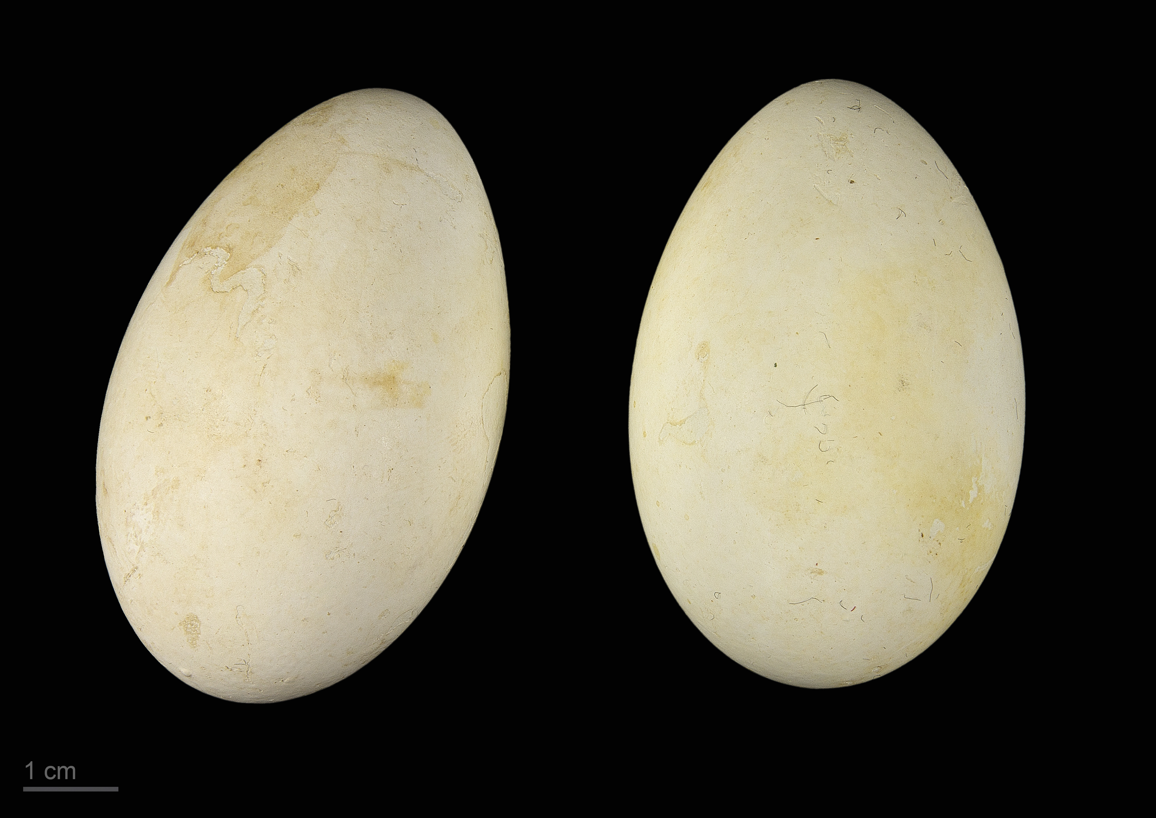 Eggs of ssubst African darter Two specimens of the same spawn ; collection of Jacques Perrin de Brichambaut.